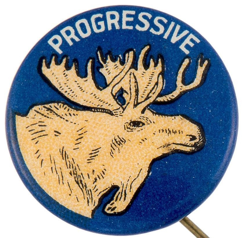 Theodore Roosevelt campaign pin from 1912, depicting a bull moose, symbol of the Progressive Party